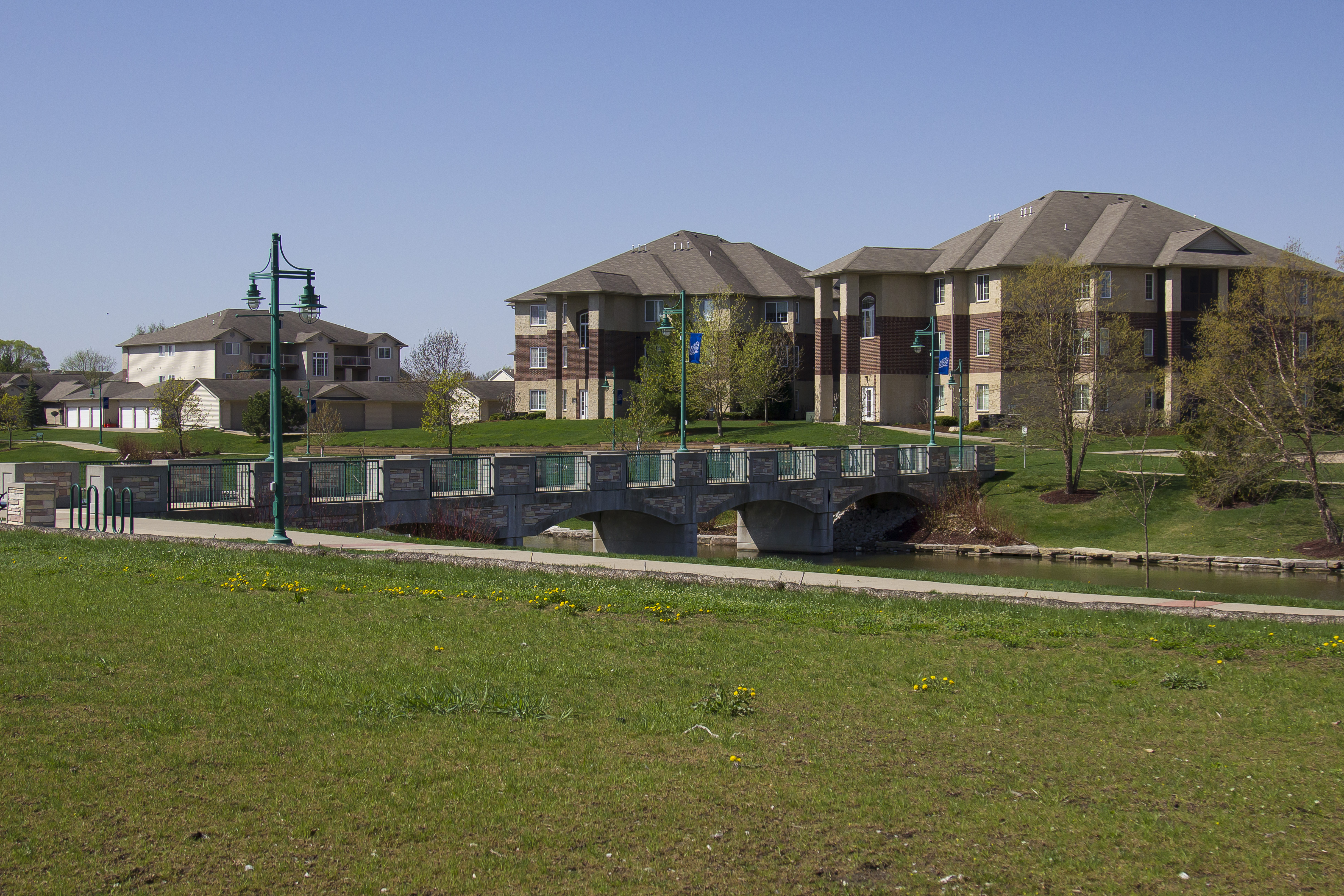 Homes, walking bridge and trail, and pond at North Liberty's Liberty Centre area.